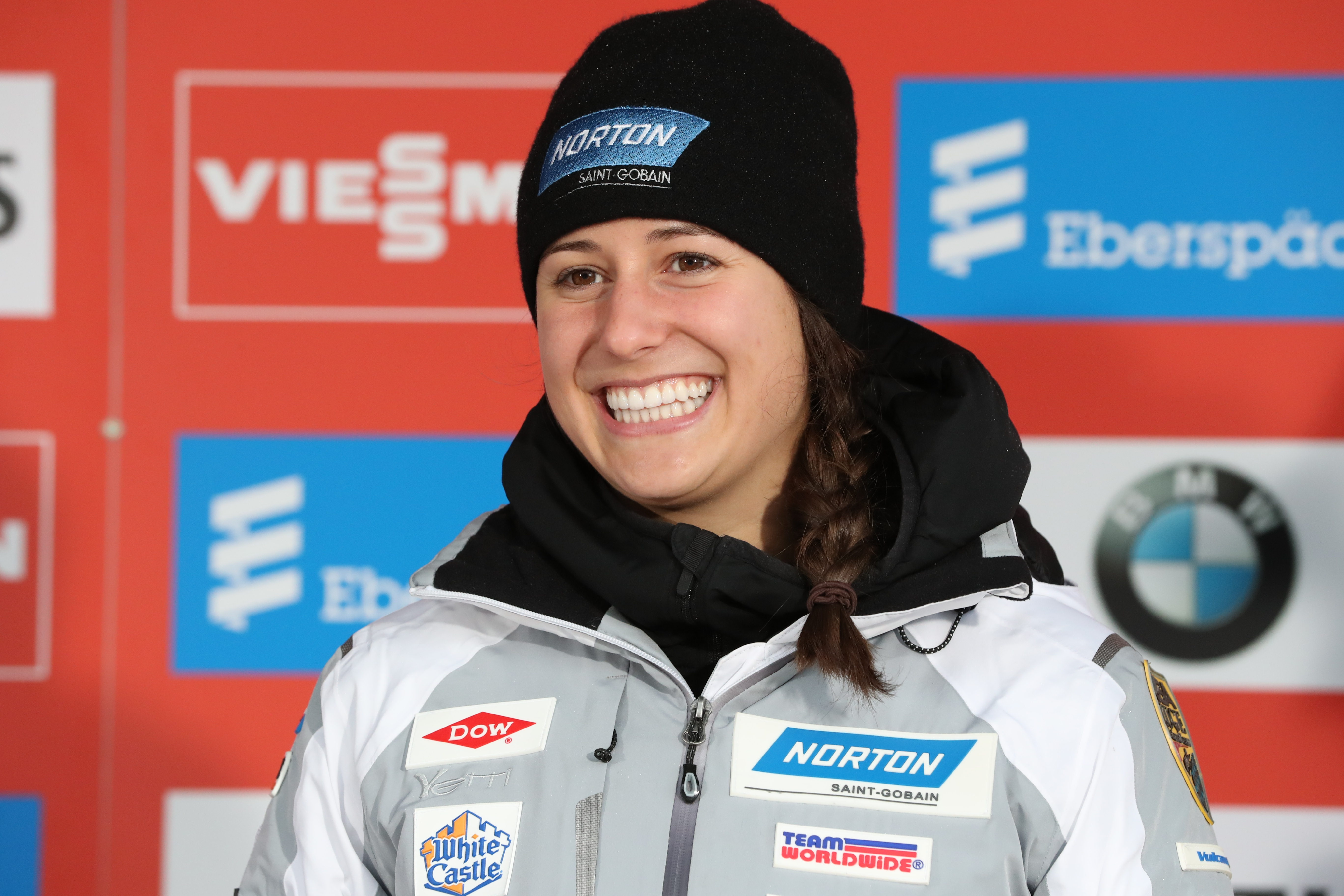 Women´s Nationscup race in Winterberg: Emily Sweeney